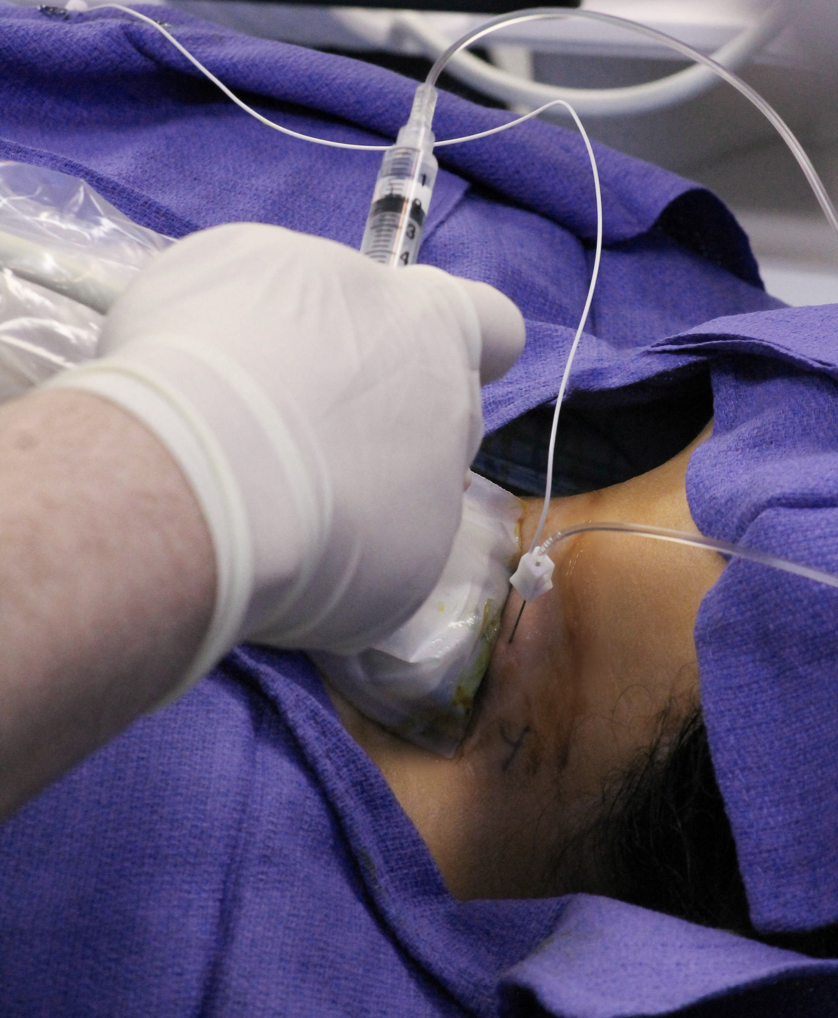 Interscalene Nerve Block Injection Procedure For Chronic Pain.